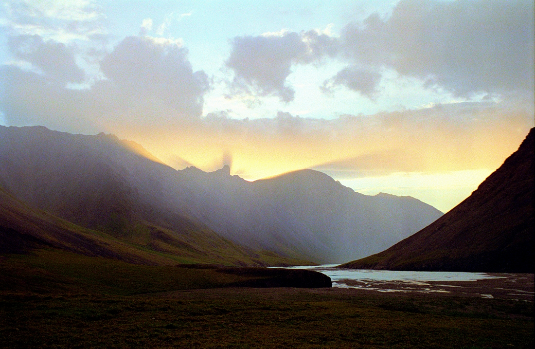 Alaska, Arctic National Wildlife Refuge, Canning River tributary